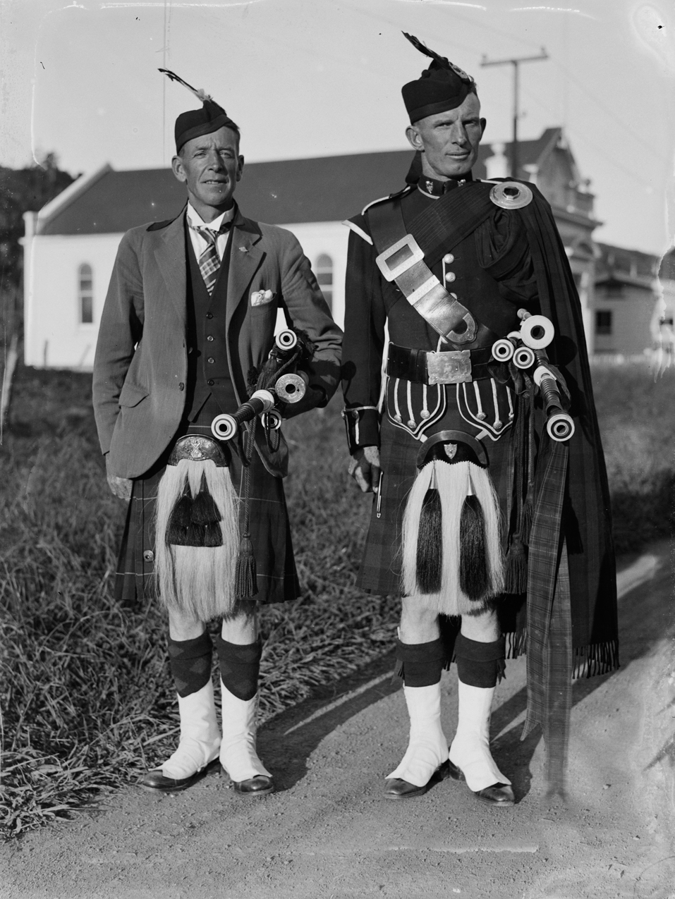 Full length portrait of two men dressed in traditional Scottish costume. They also each holding bagpipes. There is grass, and buildings, in the background.